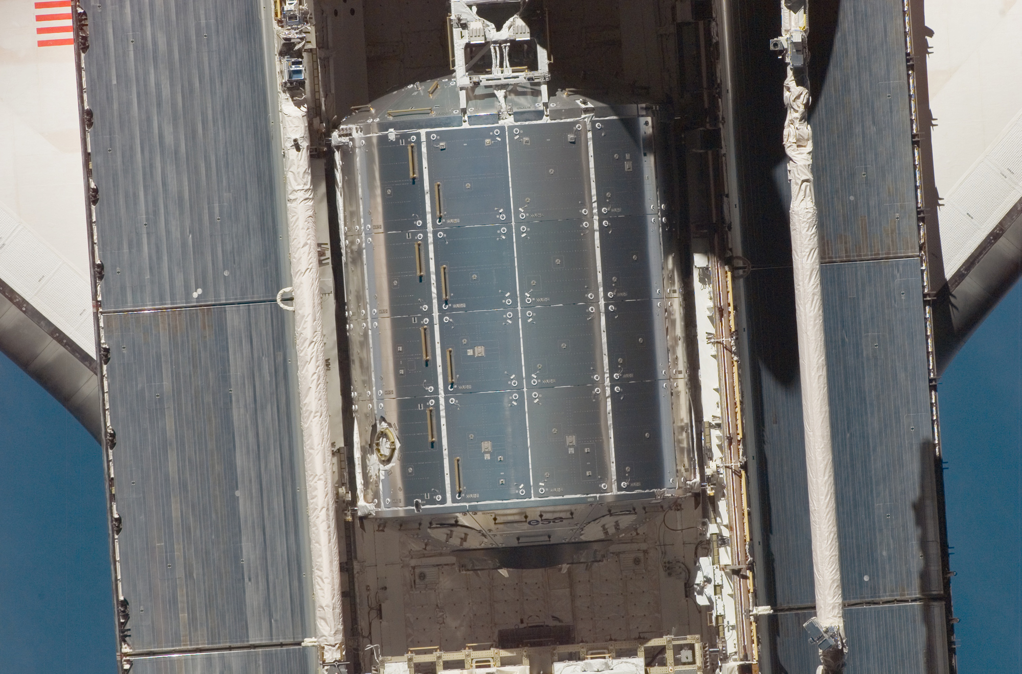 An overhead view of the European Space Agency's Columbus laboratory in Space Shuttle Atlantis' cargo bay was provided by Expedition 16 crewmembers. Before docking with the International Space Station, astronaut Steve Frick, STS-122 commander, flew the shuttle through a roll pitch maneuver or basically a backflip to allow the space station crew a good view of Atlantis' heat shield. Using digital still cameras equipped with both 400 and 800 millimeter lenses, the ISS crewmembers took a number of photos of the shuttle's thermal protection system and sent them down to teams on the ground for analysis. A 400 millimeter lens was used for this image.